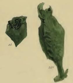 Stainton’s Natural History of the Tineina (1855–1873): Caryocolum viscariella a shoot of Silene dioica attacked by it (3b*), and a section of the shoot (3b)